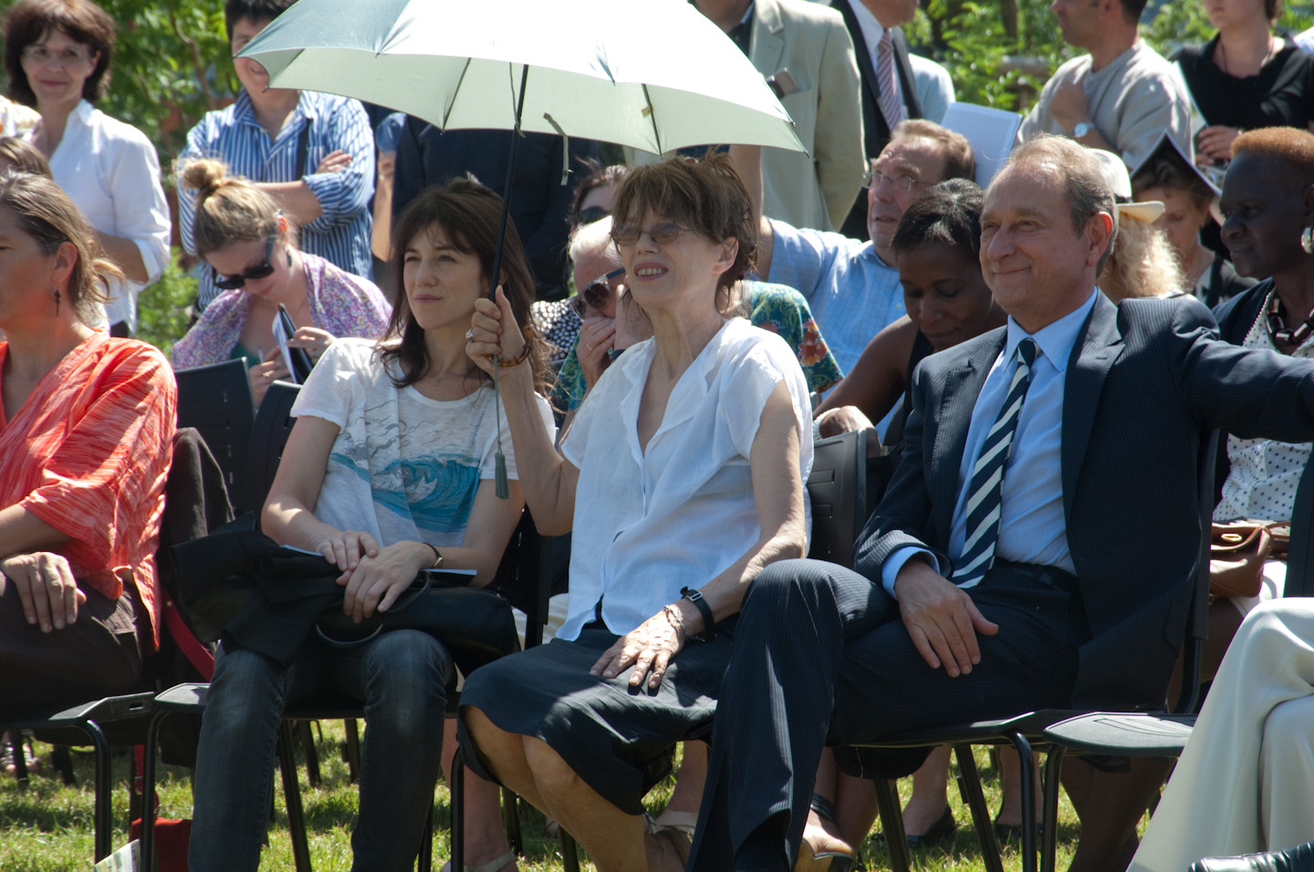 Inauguration of Jardin Serge-Gainsbourg, Paris, 8 July 2010.